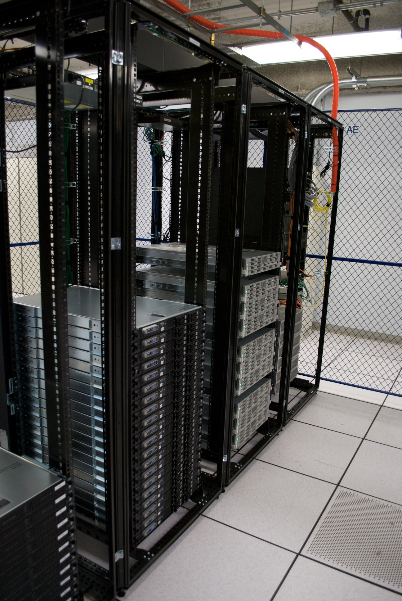 Photos of the Wikimedia Server cluster in the sdtpa facility.